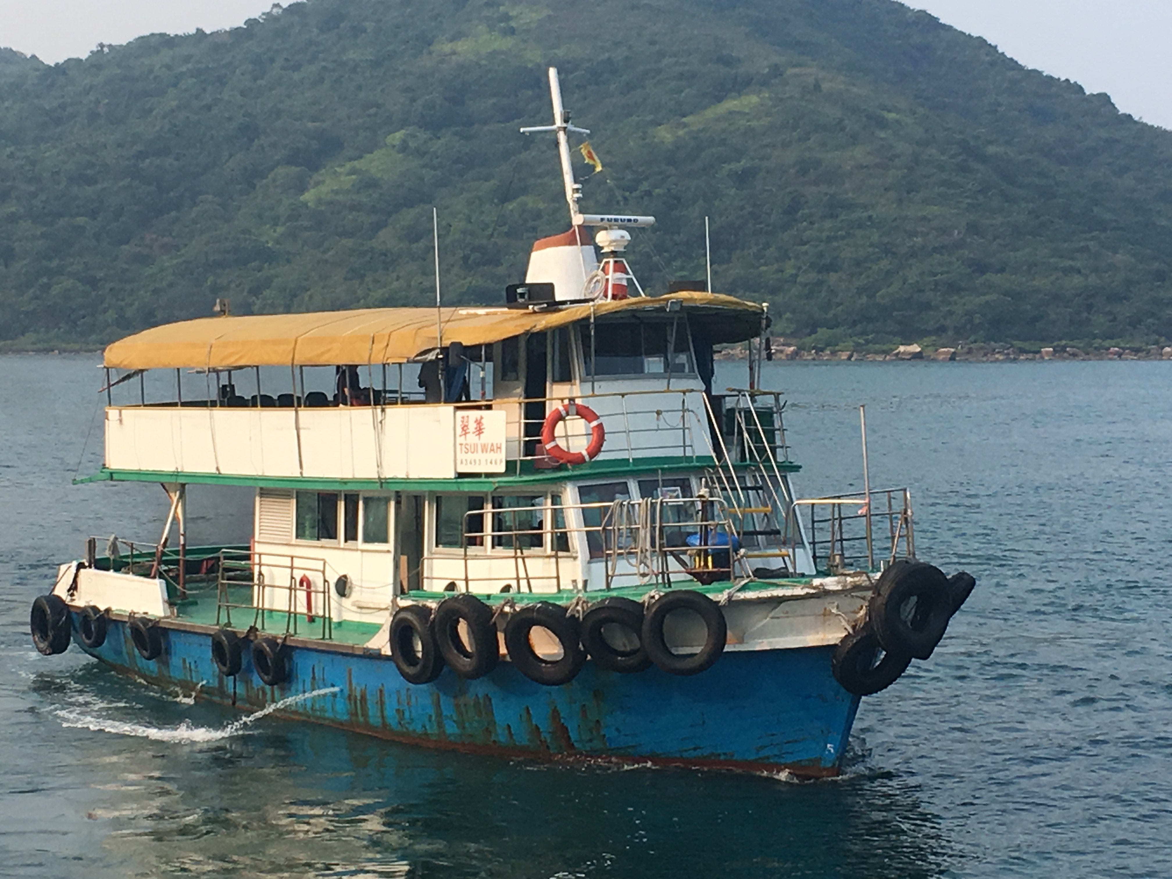 中文（香港）: This photo is taken in Wong Shek.